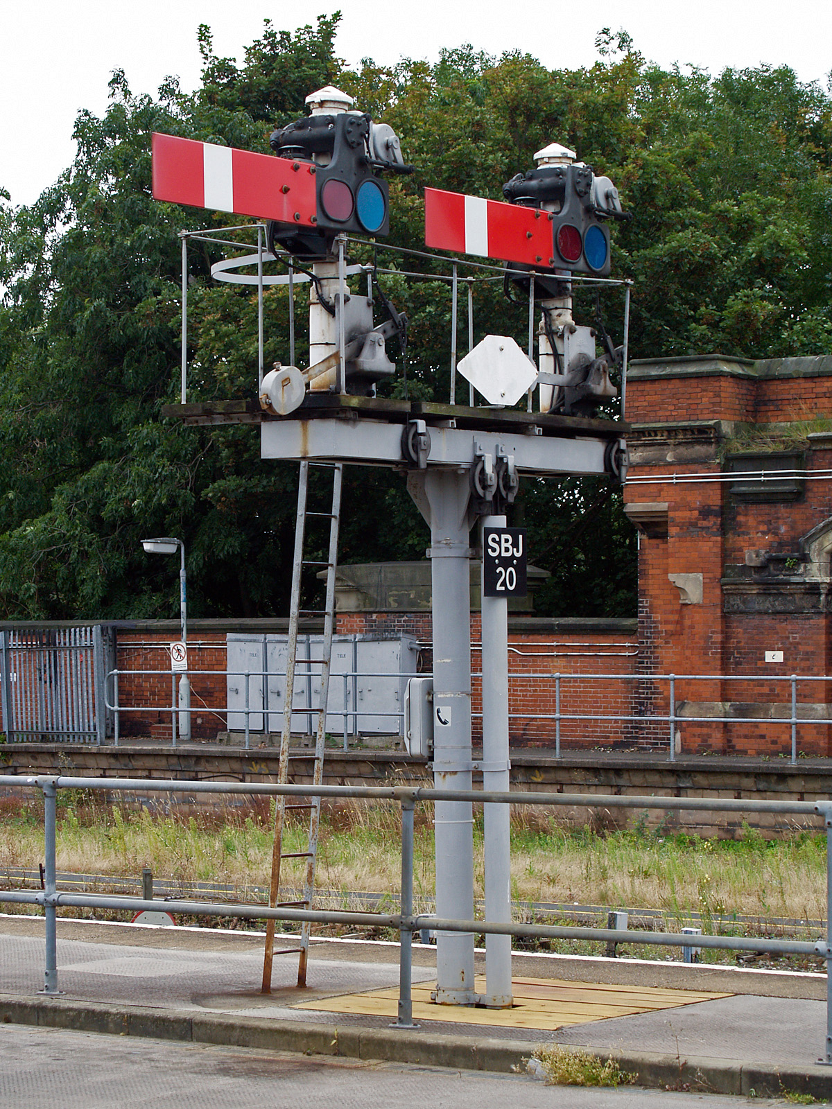 Severn Bridge Junction signal box's Up & Down Platform line starting signals at the south end of platform 4 at Shrewsbury station. Monday 27th August 2007 Severn Bridge Junction signal box is located within the triangle of lines at the south end of Shrewsbury station, and is a London and North Western Railway type 4 design which was opened in June 1903 for the London and North Western and and Great Western Joint railway fitted with a 180 lever London and North Western Railway Tumbler frame, replacing an earlier box. The original bar and stud locking was replaced by Great Western Railway 5-bar tappet locking in 1952. And the signal box was listed as a Grade II listed building on 23rd January 1991 (Left to right) 26 signal (up & down platform line home to Wellington) and 20 signal (up & down platform line home to Hereford) are carried on a British Railways London Midland Region two doll balanced bracket on a tubular main stem which replaced a London and North Western Railway two doll balanced bracket signal latterly carrying Great Western Railway lower quadrant arms with a Great Western Railway calling on arms beneath them (27 beneath 26 signal, and 21 beneath 20 signal) in the early 1980s The white diamond indicates to the driver that his train is occupying a track circuit that indicates his presence to the signalman